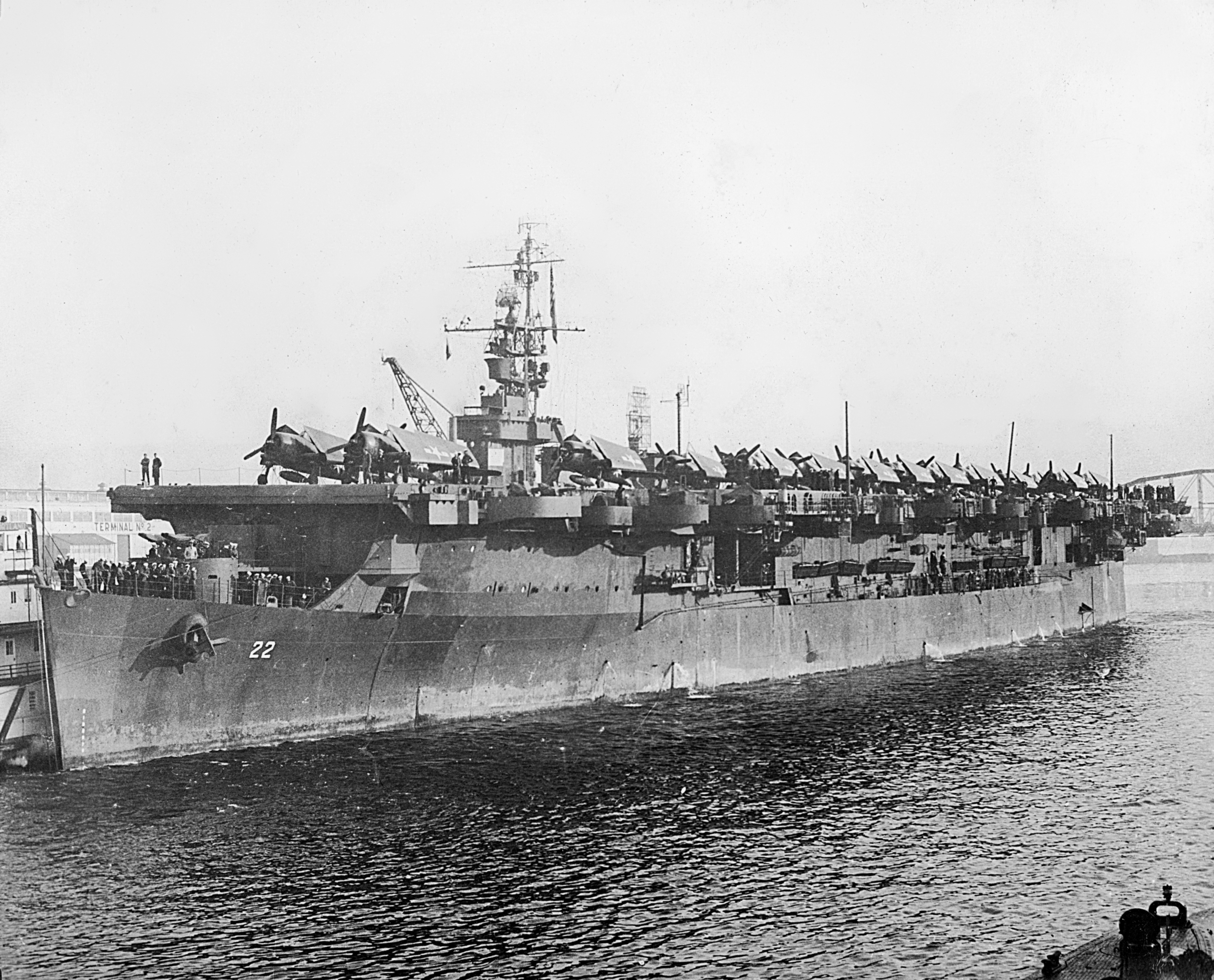 The U.S. Navy aircraft carrier USS Independence (CVL-22).